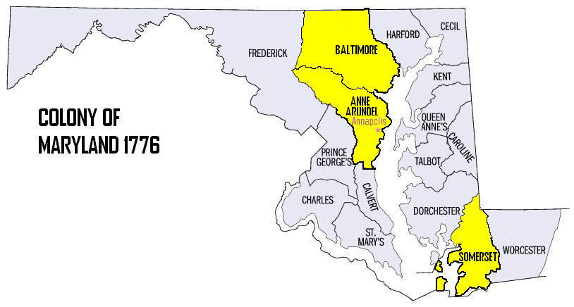 Map of the Colony of Maryland 1776, 4th Maryland Regiment's Recruitment Areas